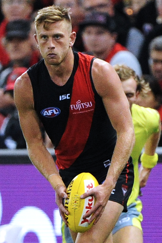 Jayden Laverde of Essendon during the 2018 AFL round 6 match between Essendon and Melbourne at Etihad Stadium on Sunday, 29 April 2018 in Melbourne, Victoria.